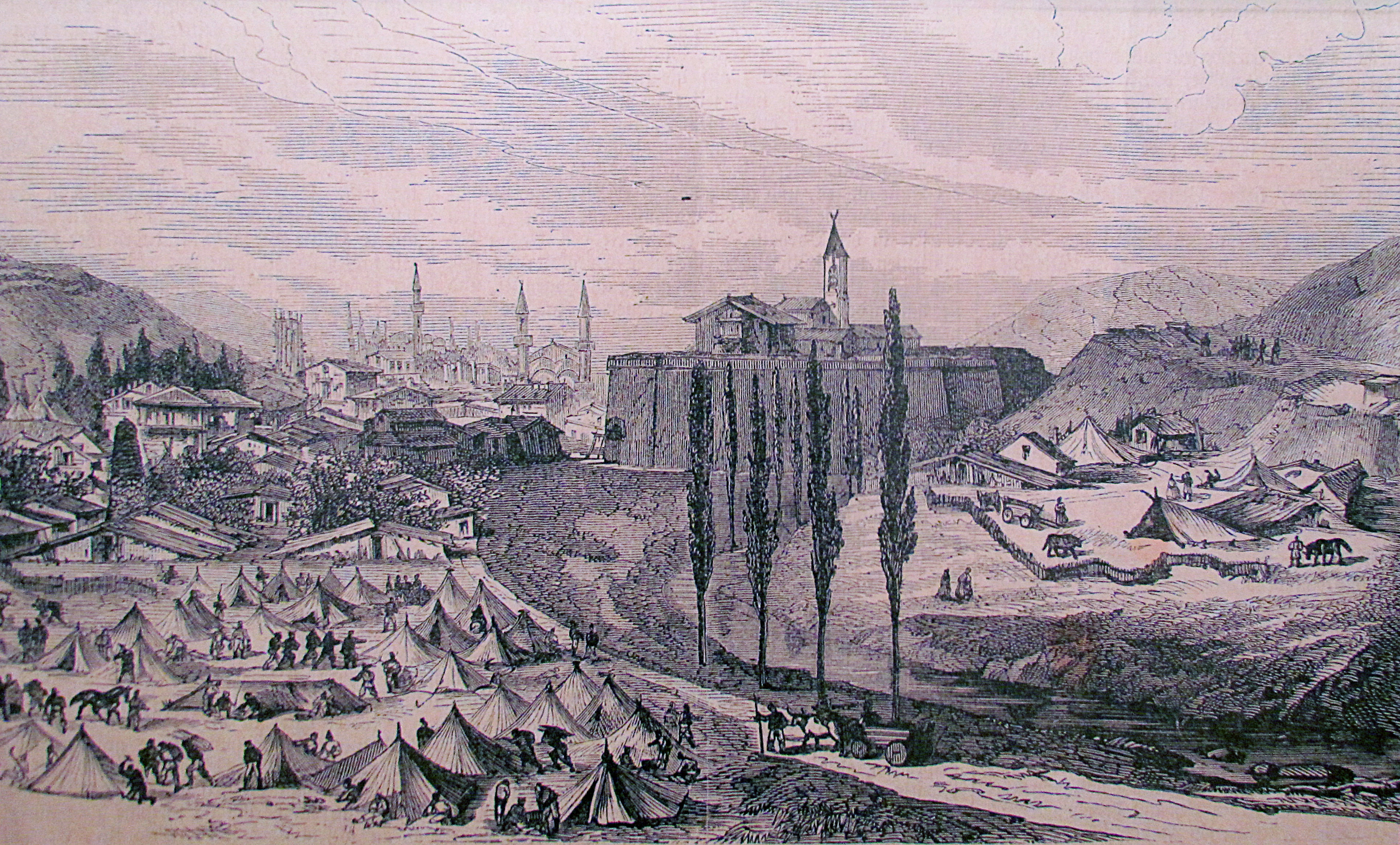 Niš XVIIc.